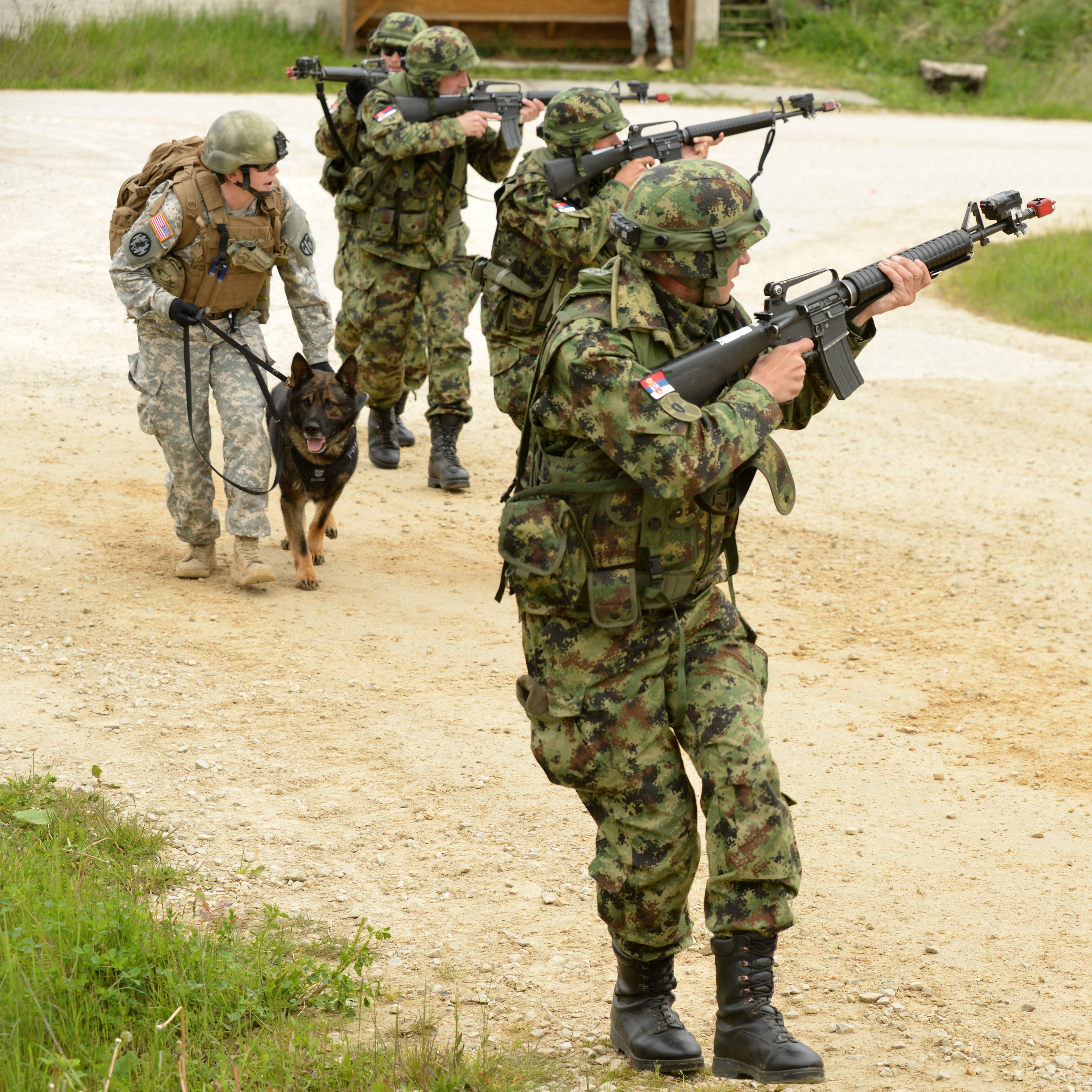 Serbian soldiers provide security for U.S. Army Sgt. Kara Yost, a Military Police dog handler with the 131st Military Working Dog Detachment, 615th Military Police Company and her dog Kajo, during urban assault training as part of exercise Combined Resolve II at the Hohenfels Training Area, Germany, May 17, 2014. Combined Resolve II is a U.S. Army Europe-directed multinational exercise at the Grafenwoehr and Hohenfels Training Areas, including more than 4,000 participants from 15 NATO and European partner nations. (U.S. Army photo by Visual Information Specialist Markus Rauchenberger/released)